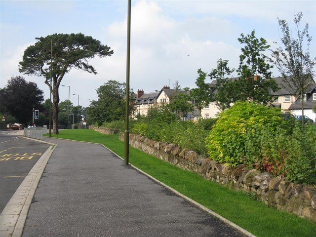 Frogston Road West The B701 at Fairmilehead. One of Edinburgh's subsidiary ring roads, with new housing on the site of what was the Princess Margaret Rose Hospital.